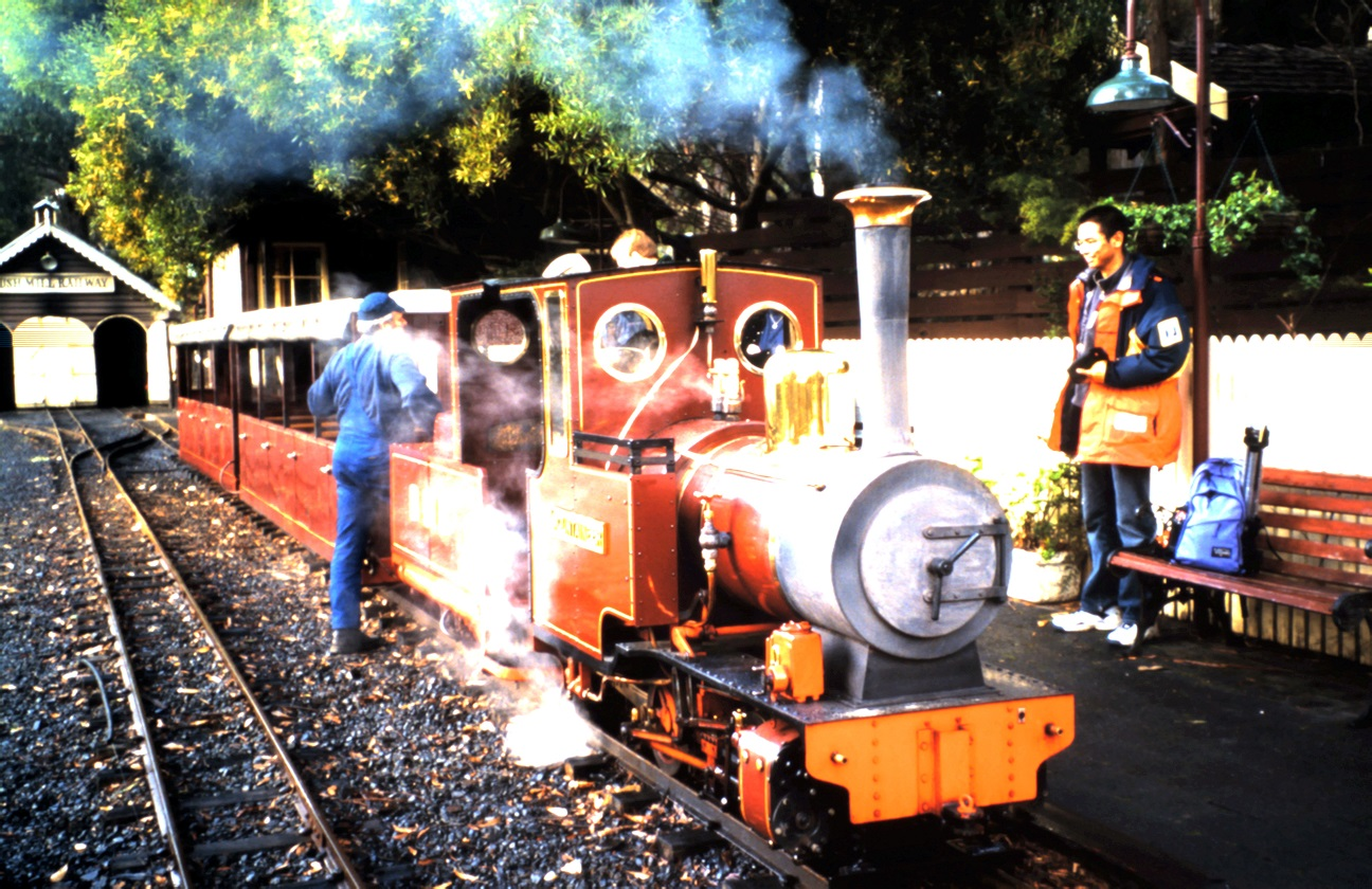 Locomotive Mountaineer on the Bushmill Railway in Tasmania in July 1998 with a train of two of the railway's five semi-open coaches.